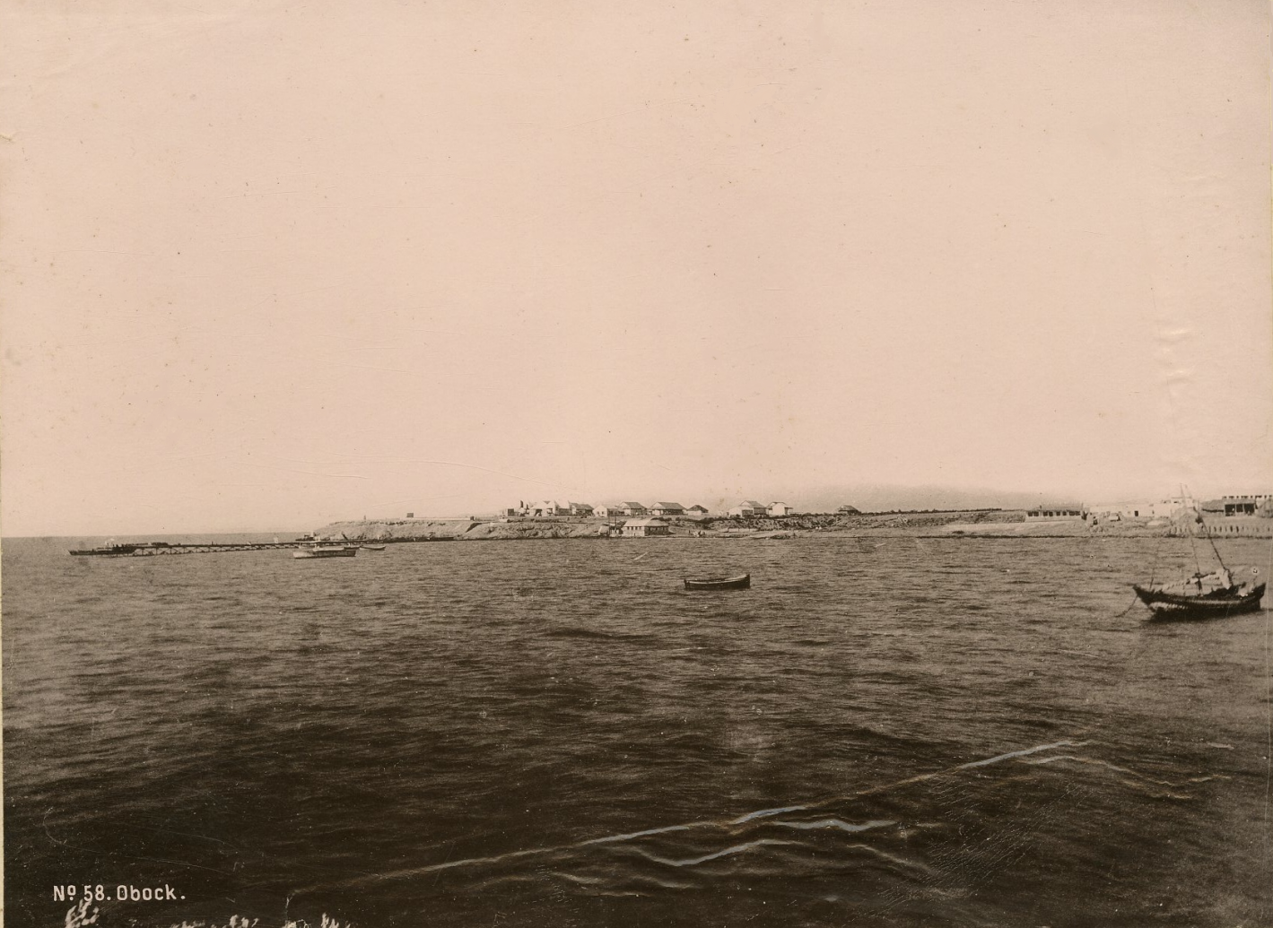 The French settlement of Obock c. 1890. A small Decauville train is visible on the jetty on the left. Djibouti was soon to replace Obock as the capital of the nascent French Somaliland.